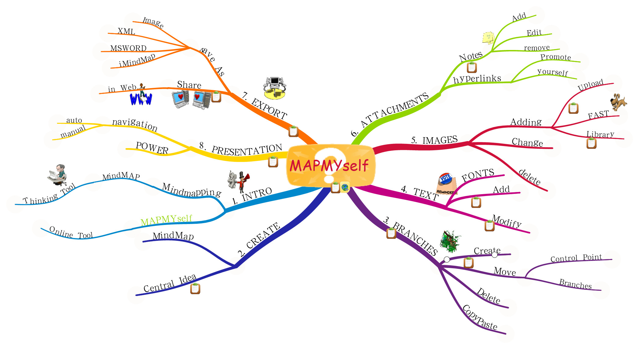 mindmap mapmyself sample